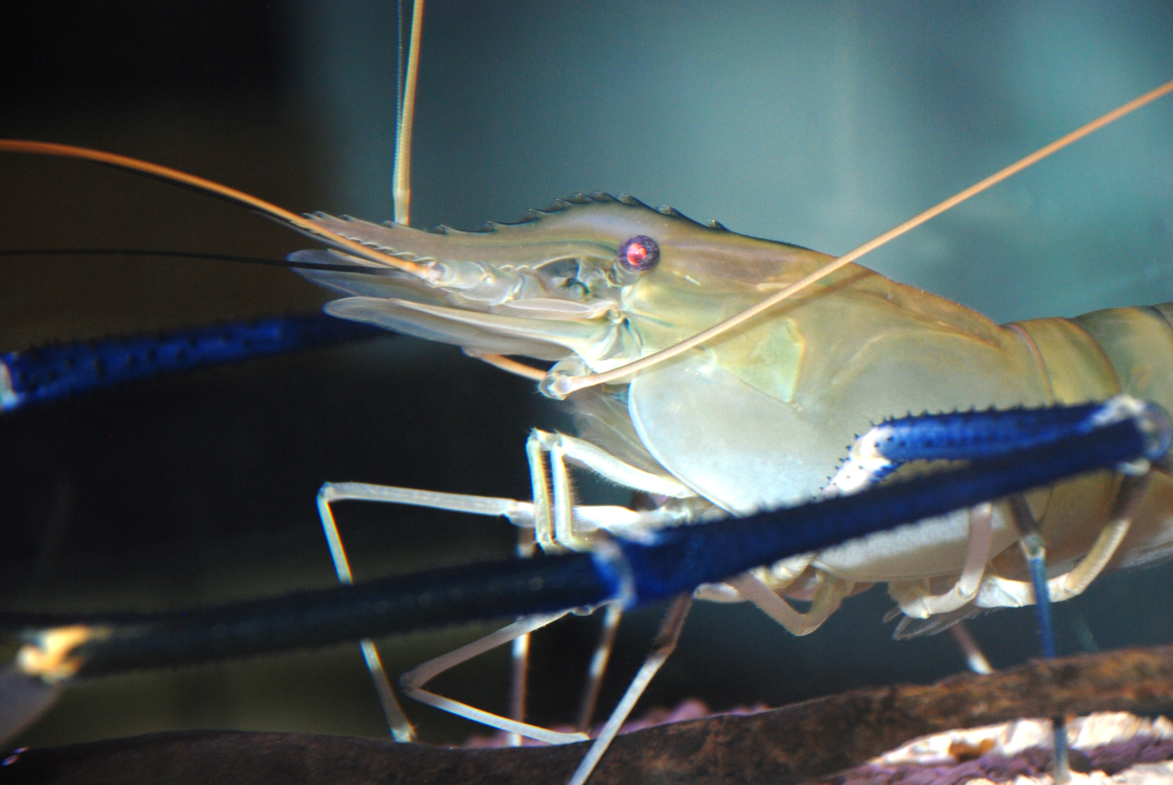 Invertebrates in Smithsonian National Zoological Park: Macrobrachium rosenbergii Giant freshwater prawn